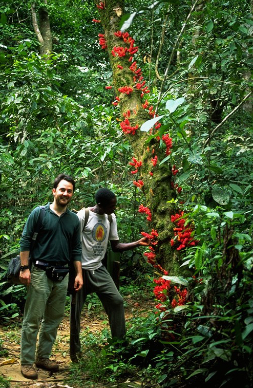 Tropical forest tree in Cameroon park Korup red fruits